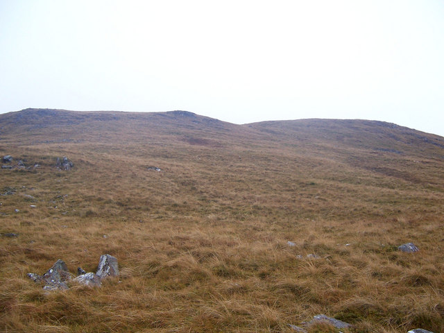 Grassy moorland below Druim Fada Looking southwards from the foot of the central North Ridge of Druim Fada, which becomes much steeper and narrower as it gains height.